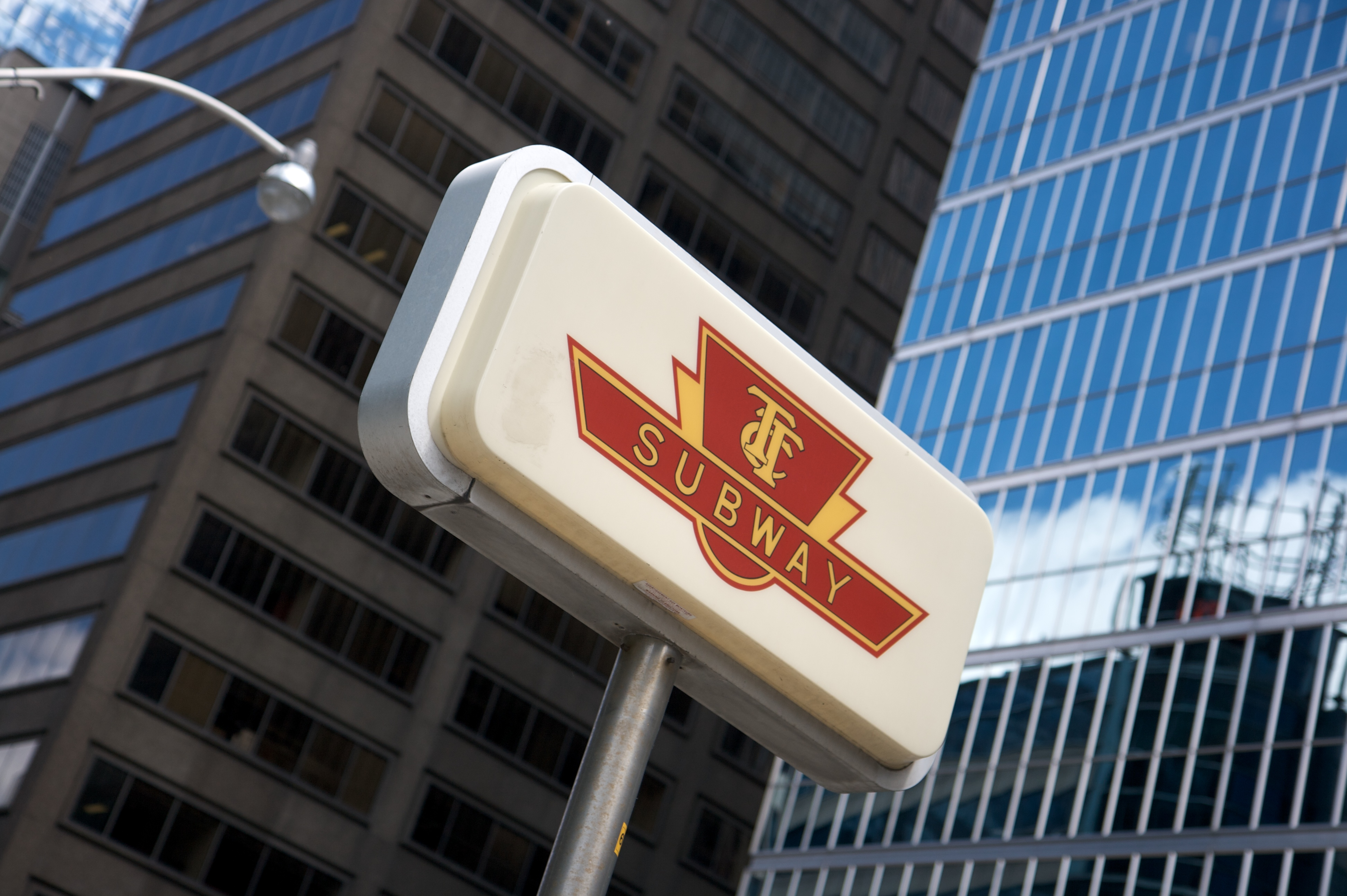 Photo of TTC Subway sign in Downtown Toronto